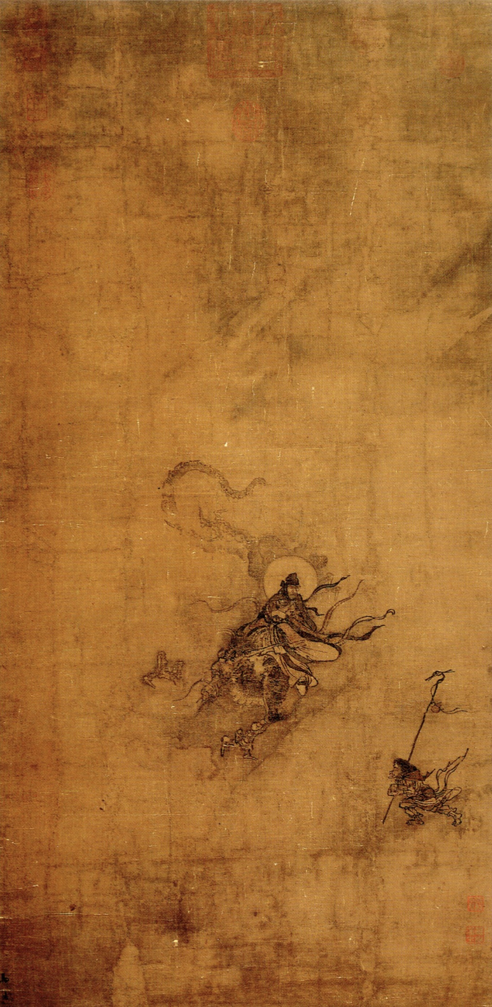 In this painting, an adept (xian) flies through the air on the back of a dragon. At the lower right, a demon thrall holds his master's dragoon-headed staff. The scene takes place against a background of clouds, from which the dragon has just emerged. The transcendent gazes into space with an intense, knowing expression.